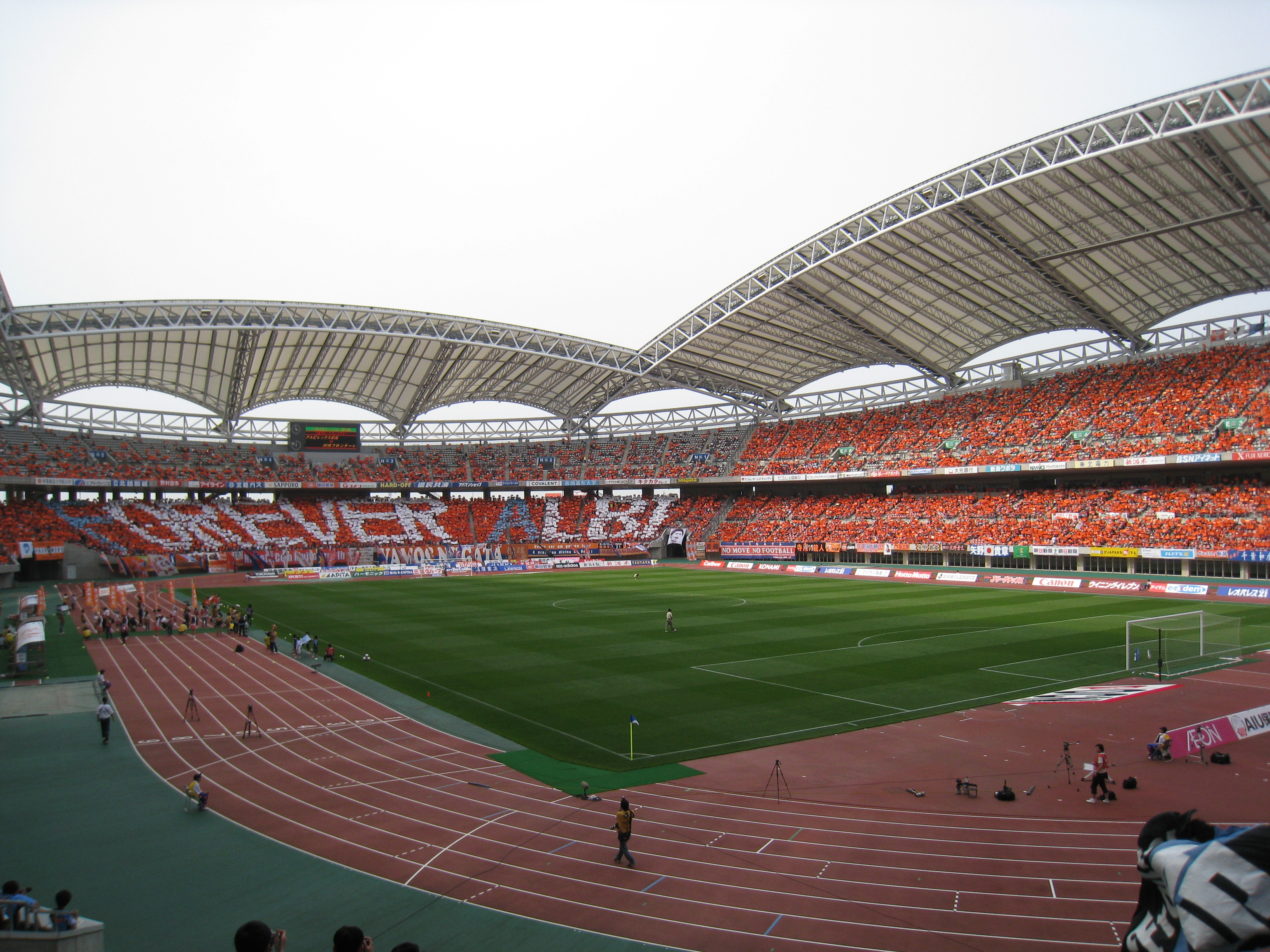 Tohoku Electric Stadium.(Bigswan)-2002FIFA Worldcup used stadium.Niigata-Ken,Japan